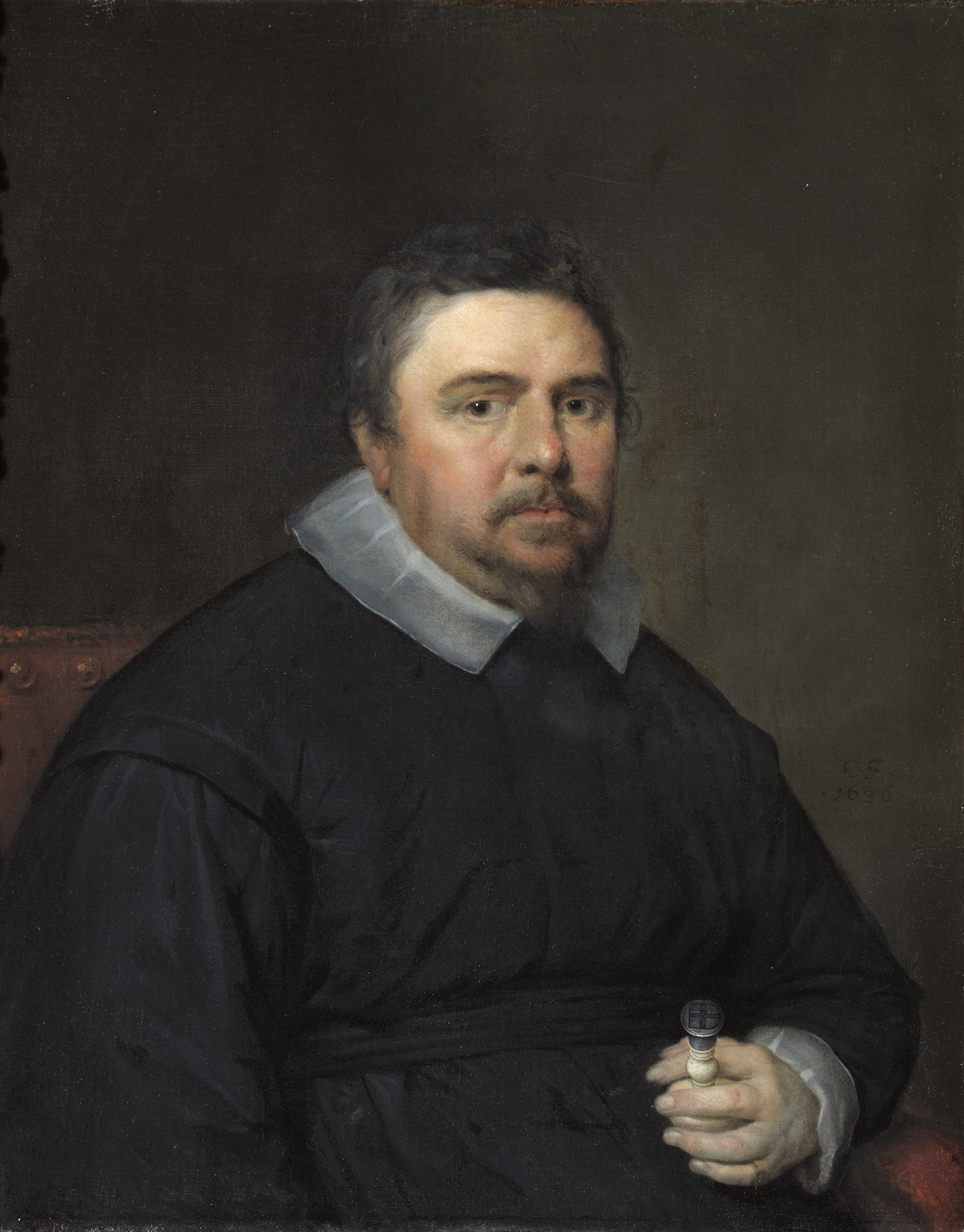 Portrait of Isaac Bargrave